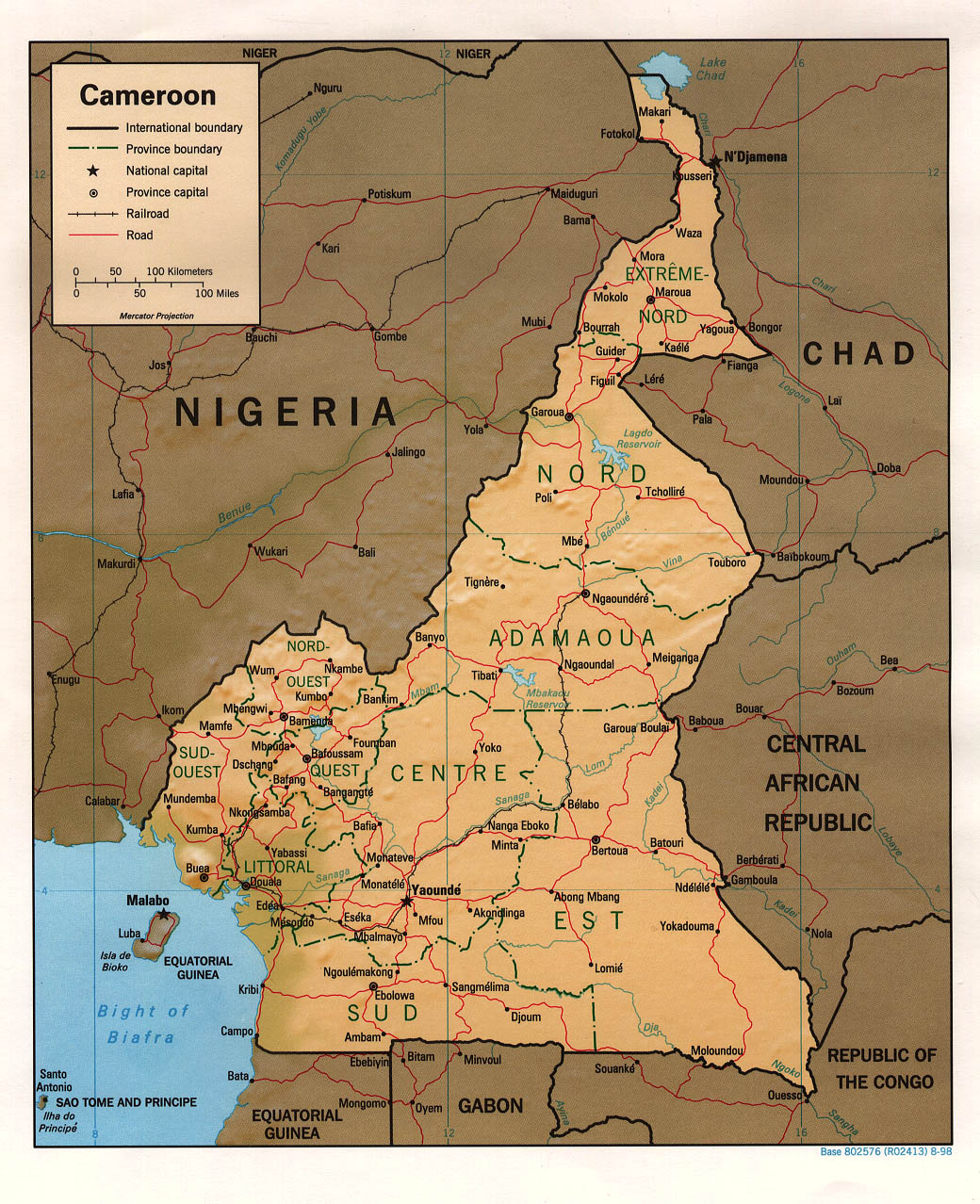 Shaded relief map of Cameroon.